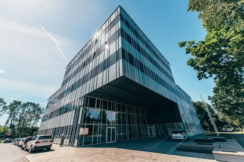 Building of the Health Board (Estonia)